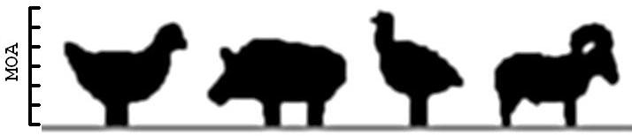 Drawings of silhouette targets adapted from IHMSA specifications. From left to right, these are chicken, pig, turkey, and ram. Drawings are scaled to approximate the relative sizes when each is seen at the specified shooting distance.